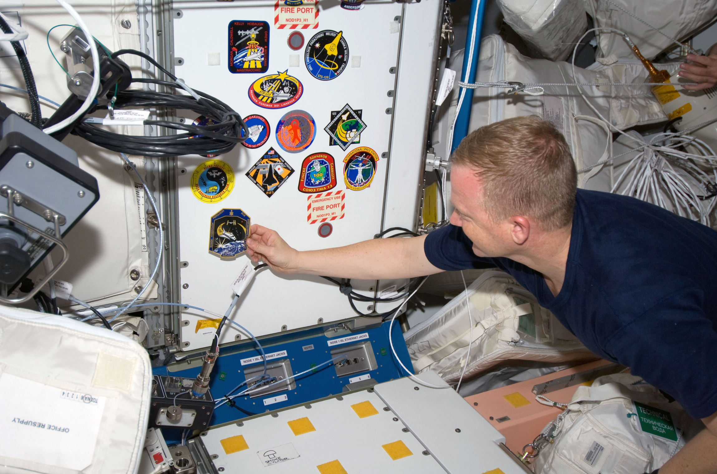 Continuing a longstanding tradition, astronaut Eric Boe, Pilot for STS-126, adds his crew patch in the Unity node to the growing collection of those representing shuttle crews who have worked on the International Space Station.